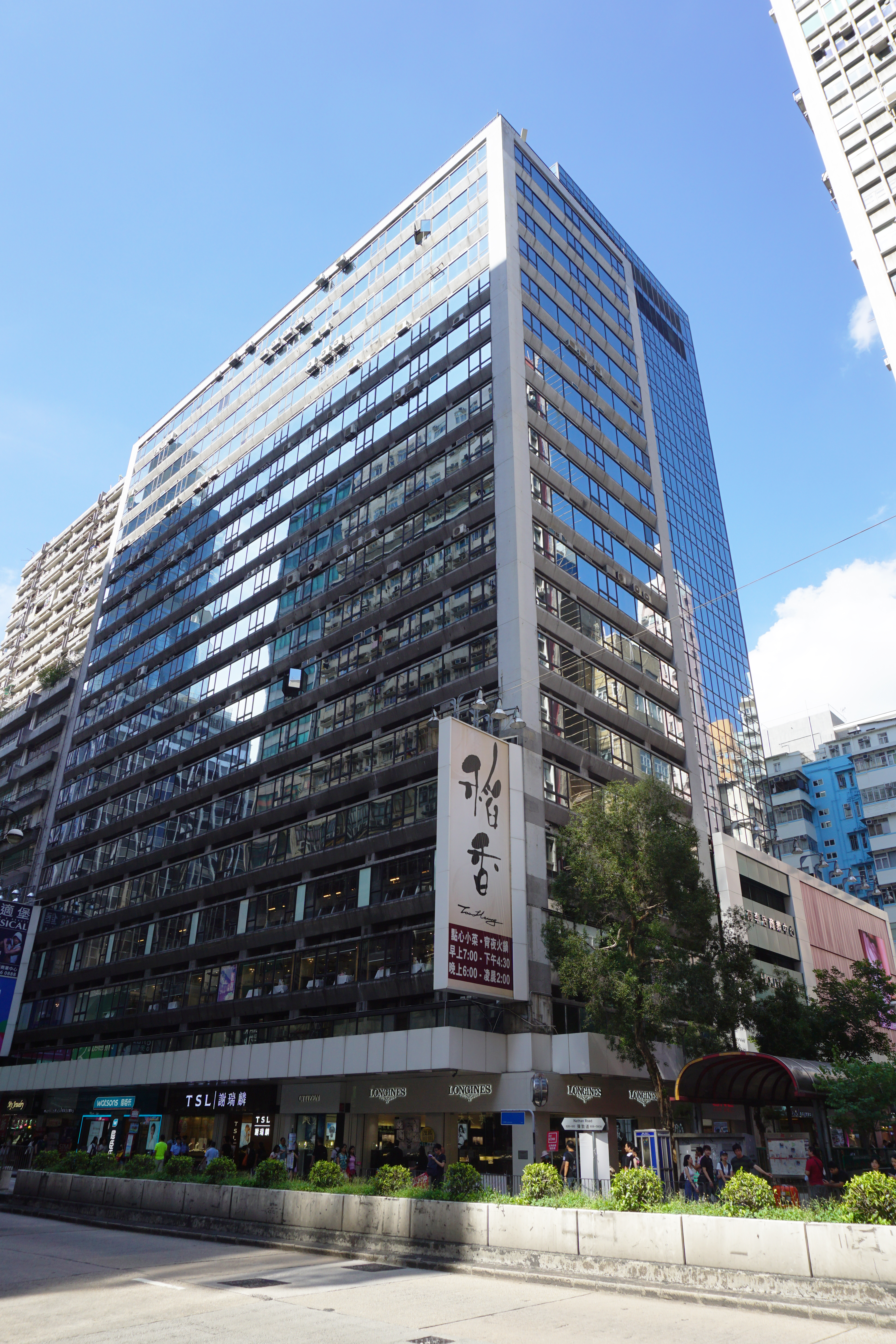 Hollywood Plaza in Mong Kok, Hong Kong.